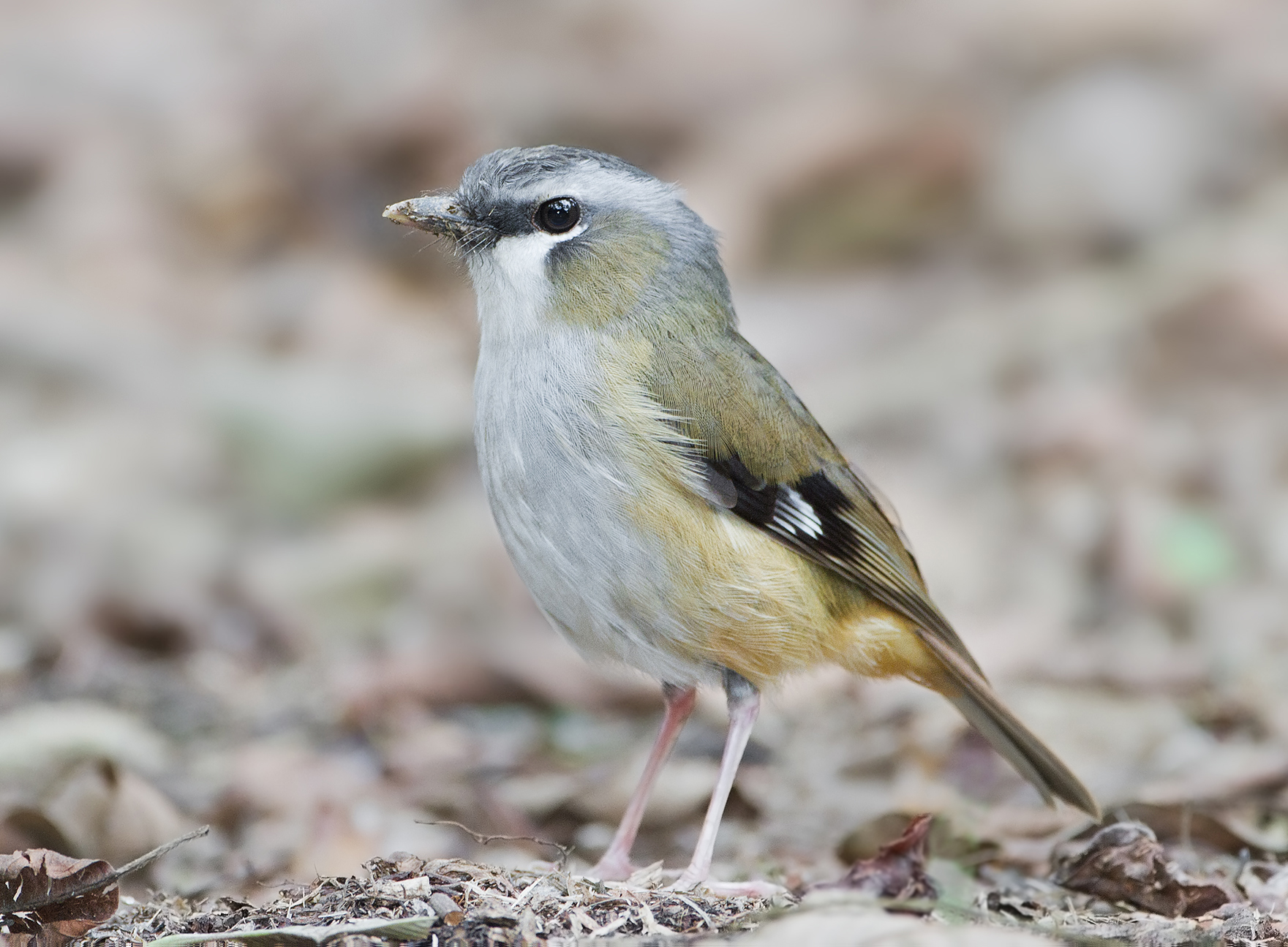 Grey-headed Robin (Heteromyias cinereifrons), Julatten, Queensland, Australia